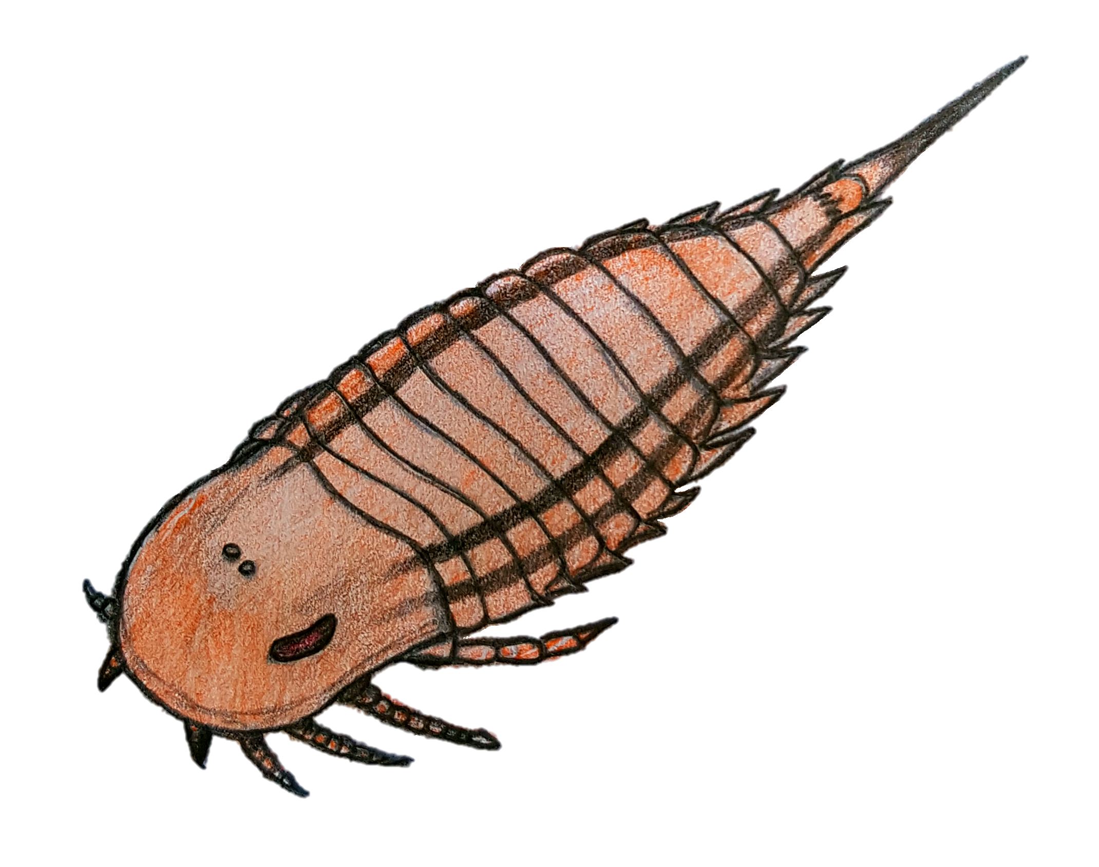 Life restoration of basal eurypterine eurypterid Stoermeropterus. Follows